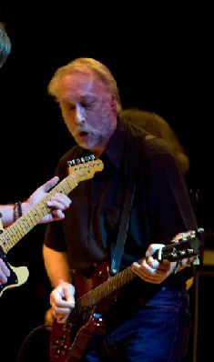 Chris Dreja